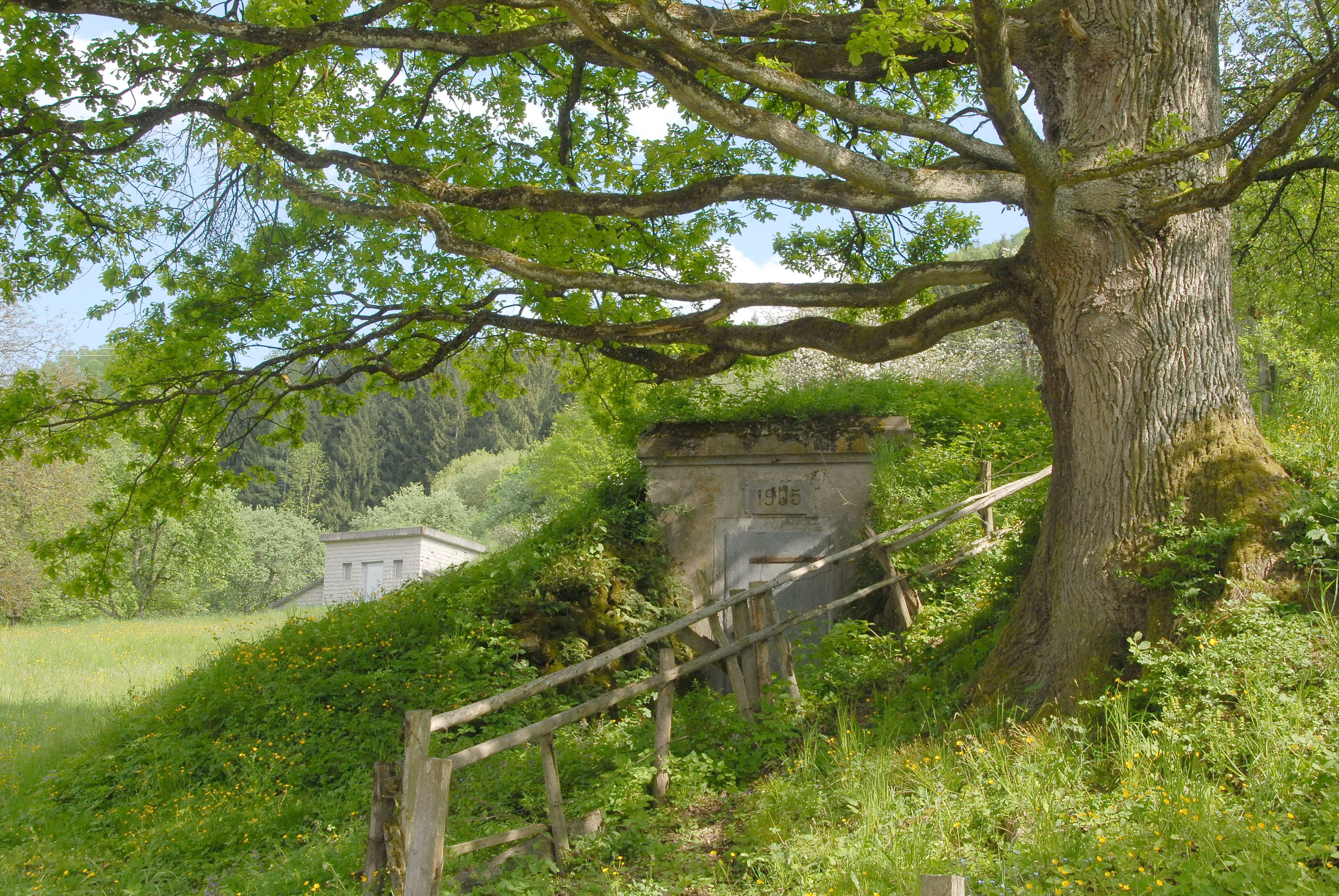 Two water sources, which supply Saint Paul with drinking water, at Saint Martin, community Saint Paul im Lavanttal, district Wolfsberg, Carinthia, Austria